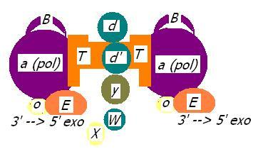 DNA Polymerase holoenzyme